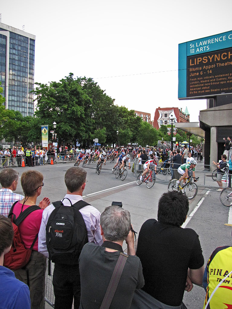 The 2009 Toronto Criterium.